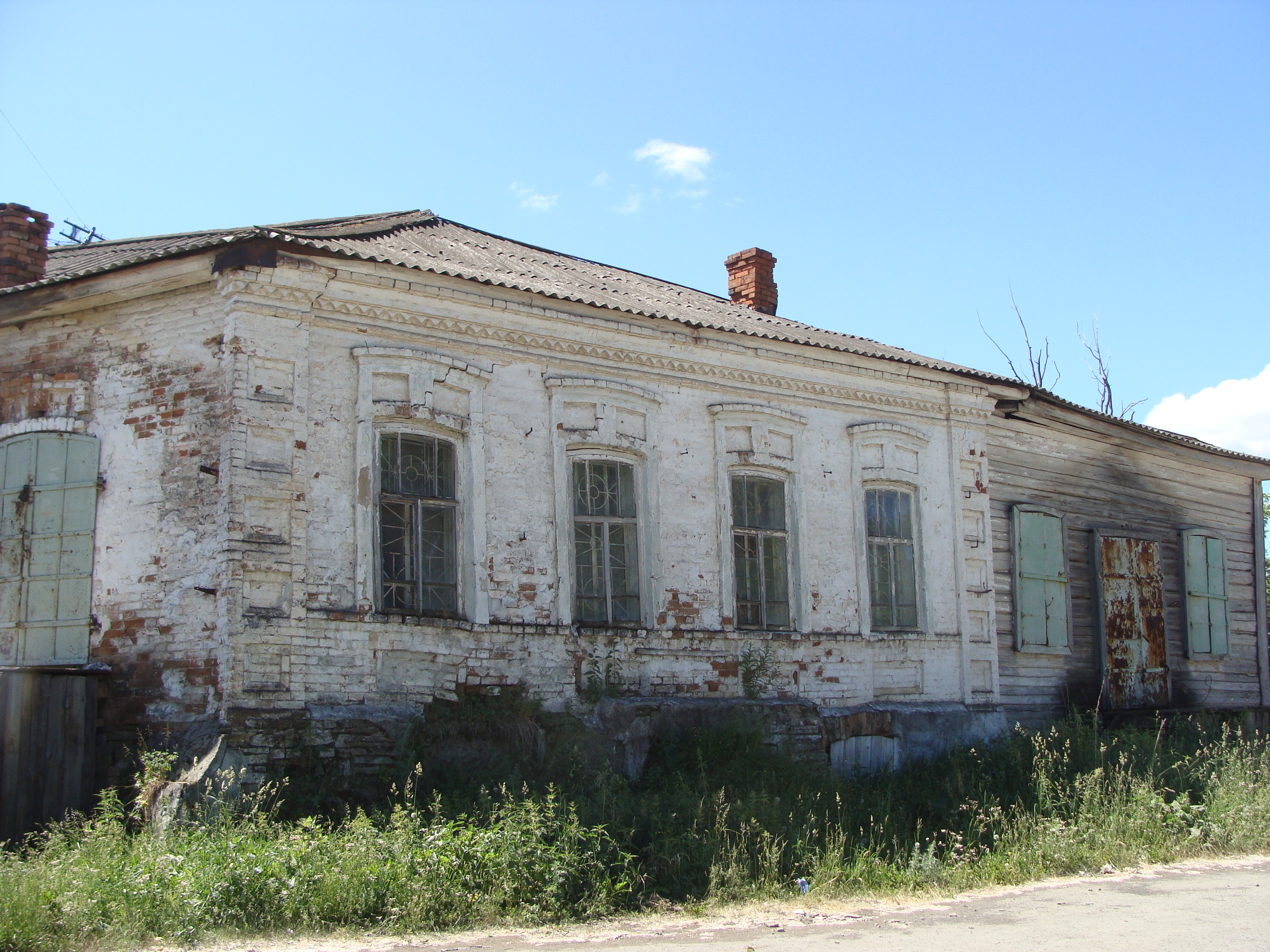 Old small shop in Cheremisskoye